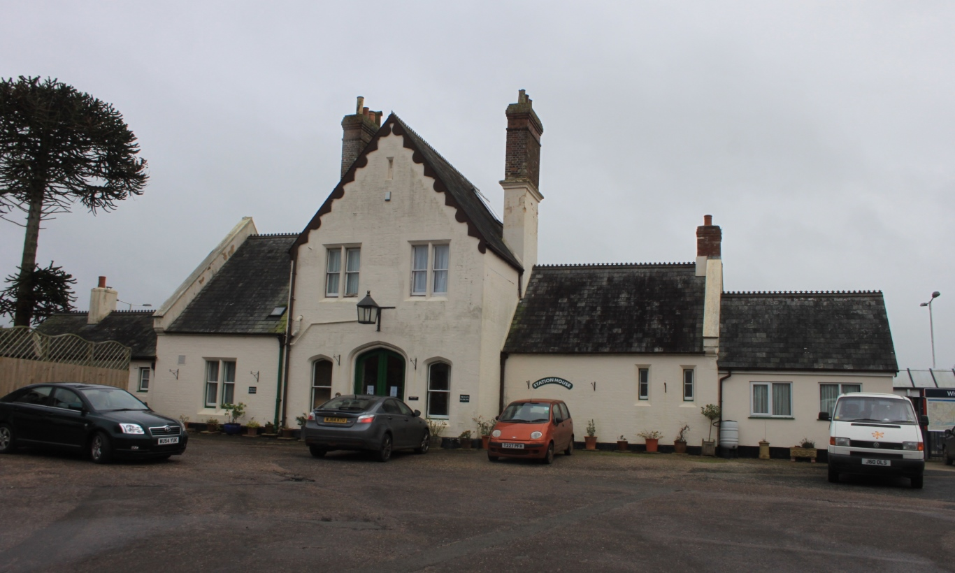 The Station House at Whimple in Devon. This was built by William Tite for the opening of the Yeovil to Exeter line in 1860 but has not been used by the railway since 1970; it is now a private house.